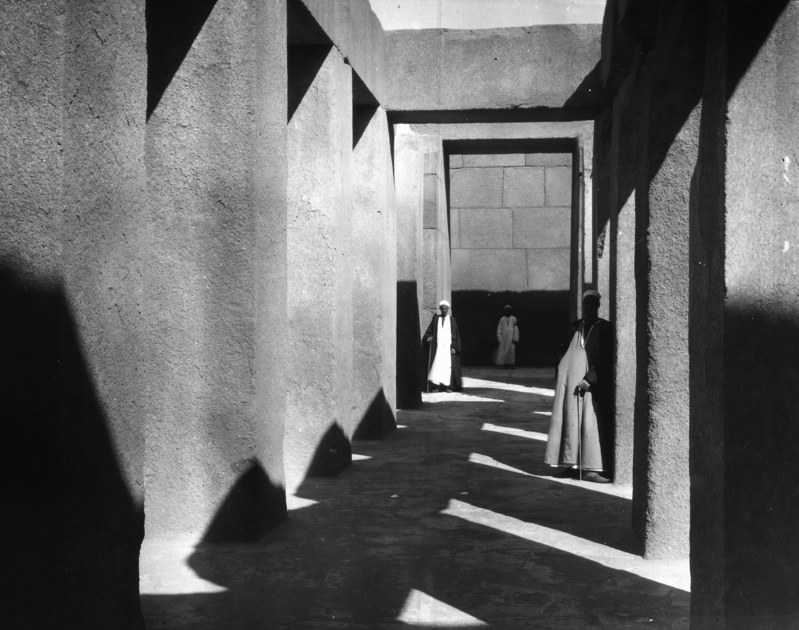 Lantern Slide Collection: Views, Objects: Egypt. Gizeh [selected images]. View 08: Egyptian - Old Kingdom. Granite Temple near Pyramid of Khephren. Gizeh, 4th Dyn., n.d., Made by Joseph Hawkes. New York City. Brooklyn Museum Archives (S10.08 Gizeh, image 9939).